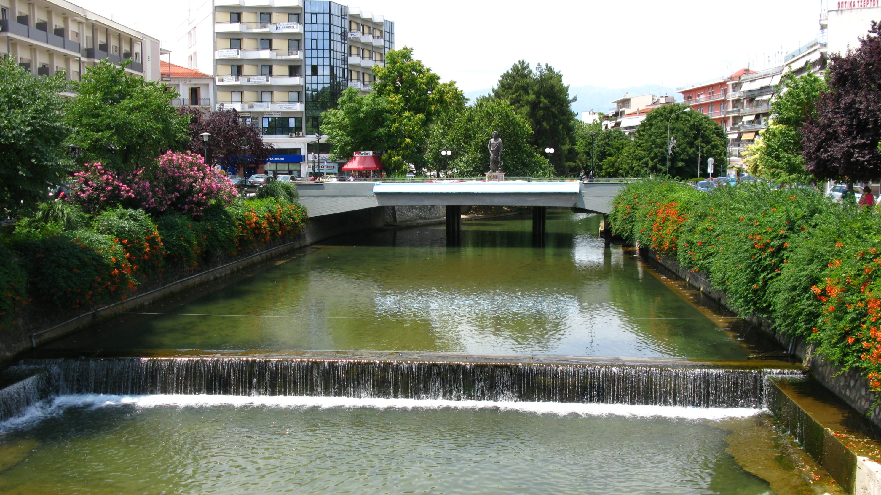 Lithaios river of Trikala